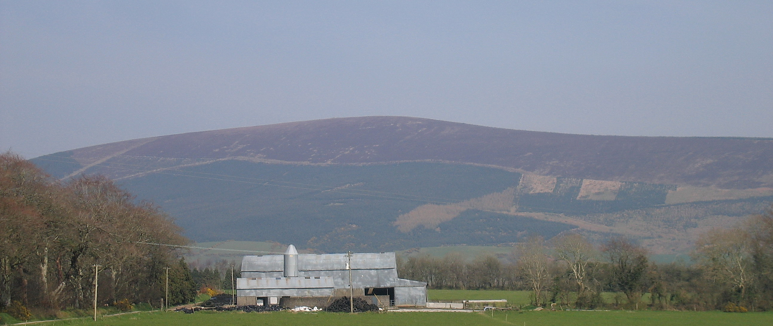 Church Mountain, taken from the south near Donard, County Wicklow, Ireland